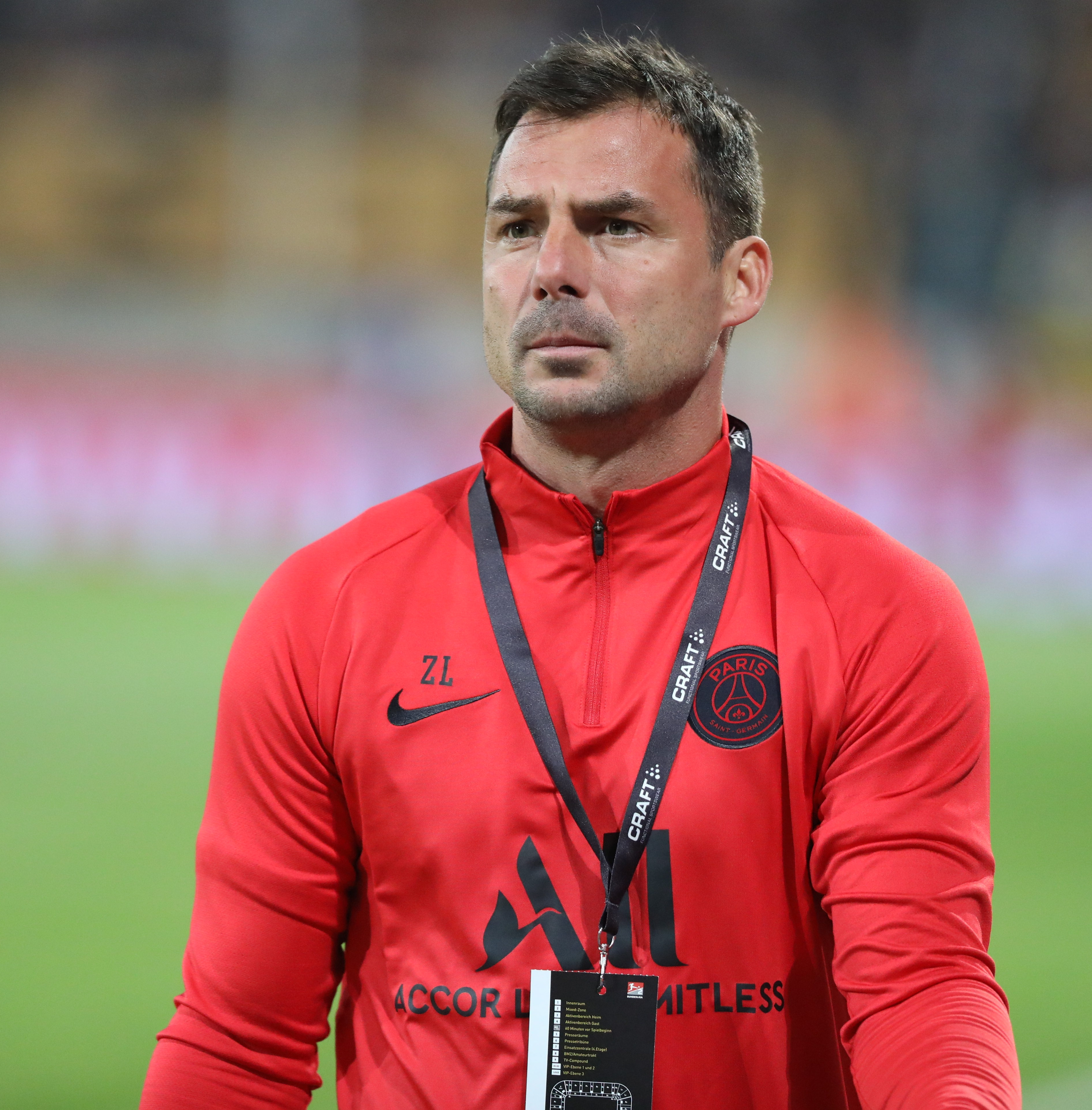 Test game, 17th July 2019: SG Dynamo Dresden vs. Paris Saint-Germain 1:6 (0:3)